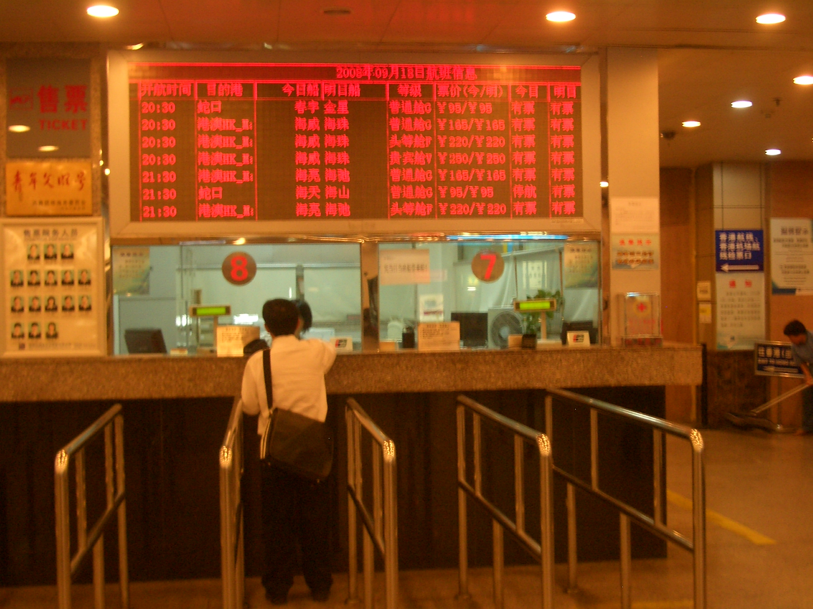 Inside the passenger ferry terminal in Jiuzhou Port, Zhuhai.